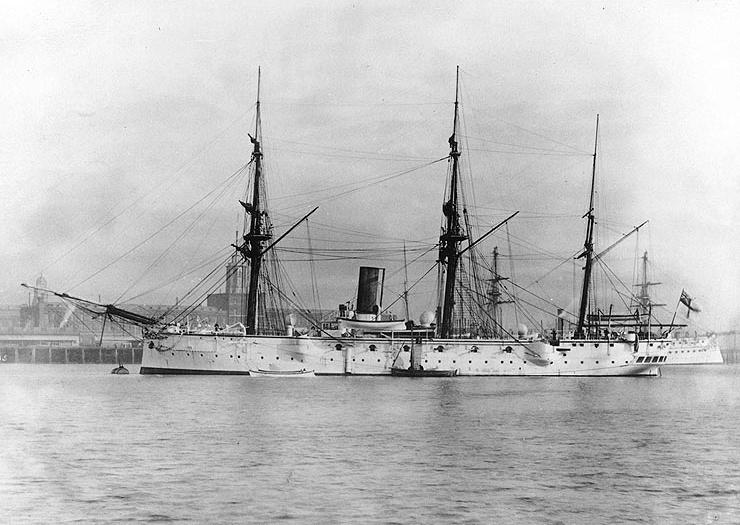 HMS Calliope (1884) in Portsmouth. A Jumna Indian troopship is in the background, beyond Calliope's stern.